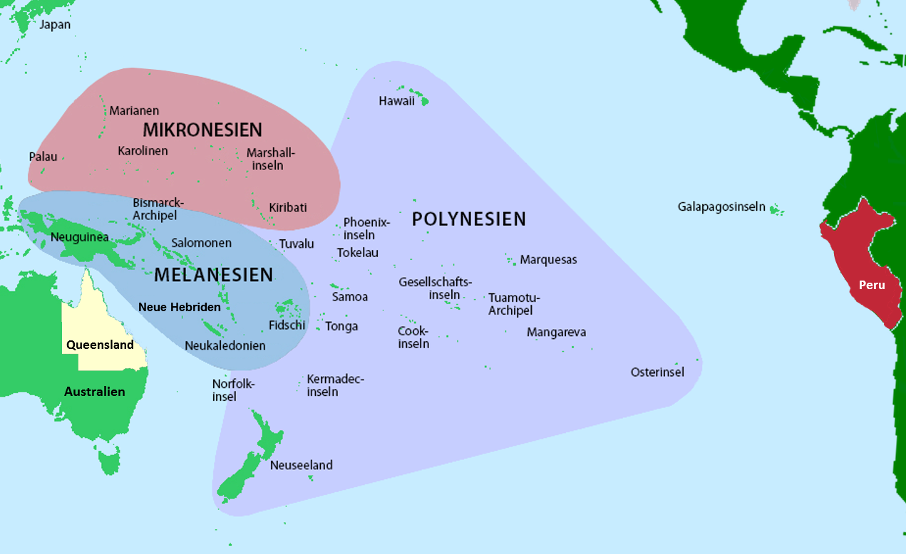 Major culture areas of Oceania: Micronesia, Melanesia, and Polynesia. Queensland higlighted yellow, Peru red. Melanesien Mikronesien Polynesien